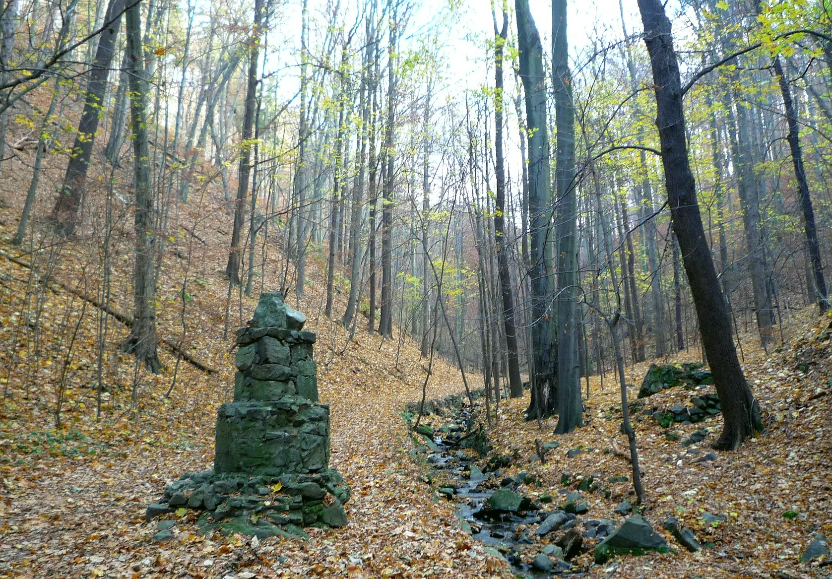 An Irminsul in Friedrichsgrund near Dresden